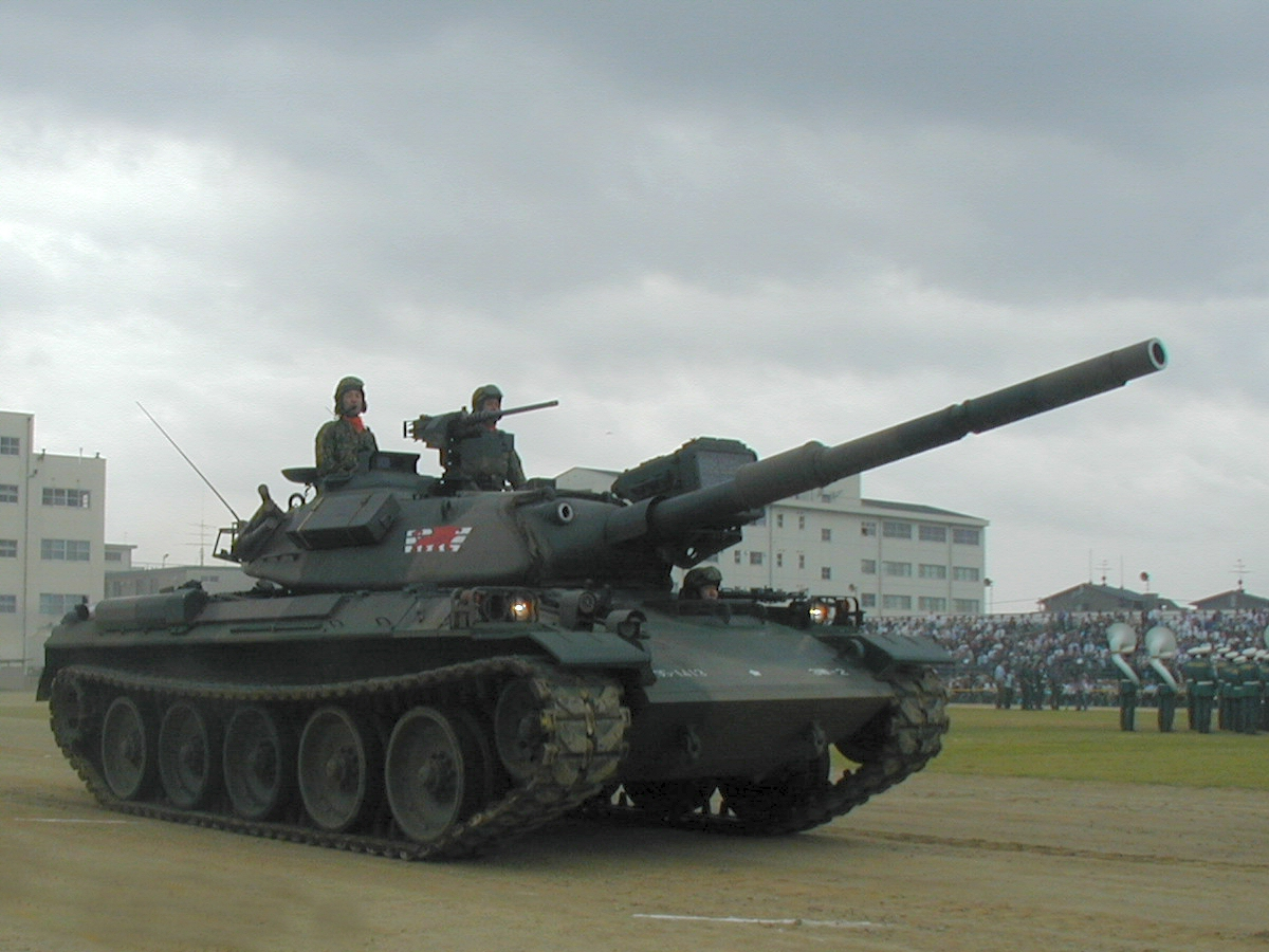 Tank Type74 of Japan Ground Self Defense Force(74式戦車)